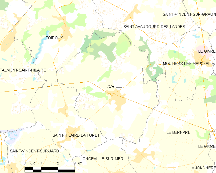 Map of French municipality Avrillé